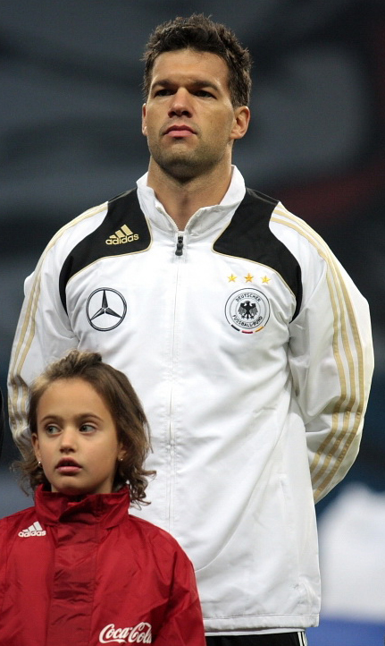 Michael Ballack